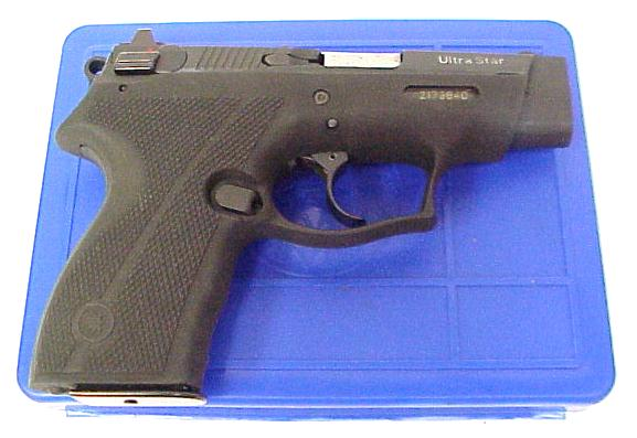 Ultrastar 9mm Pistol